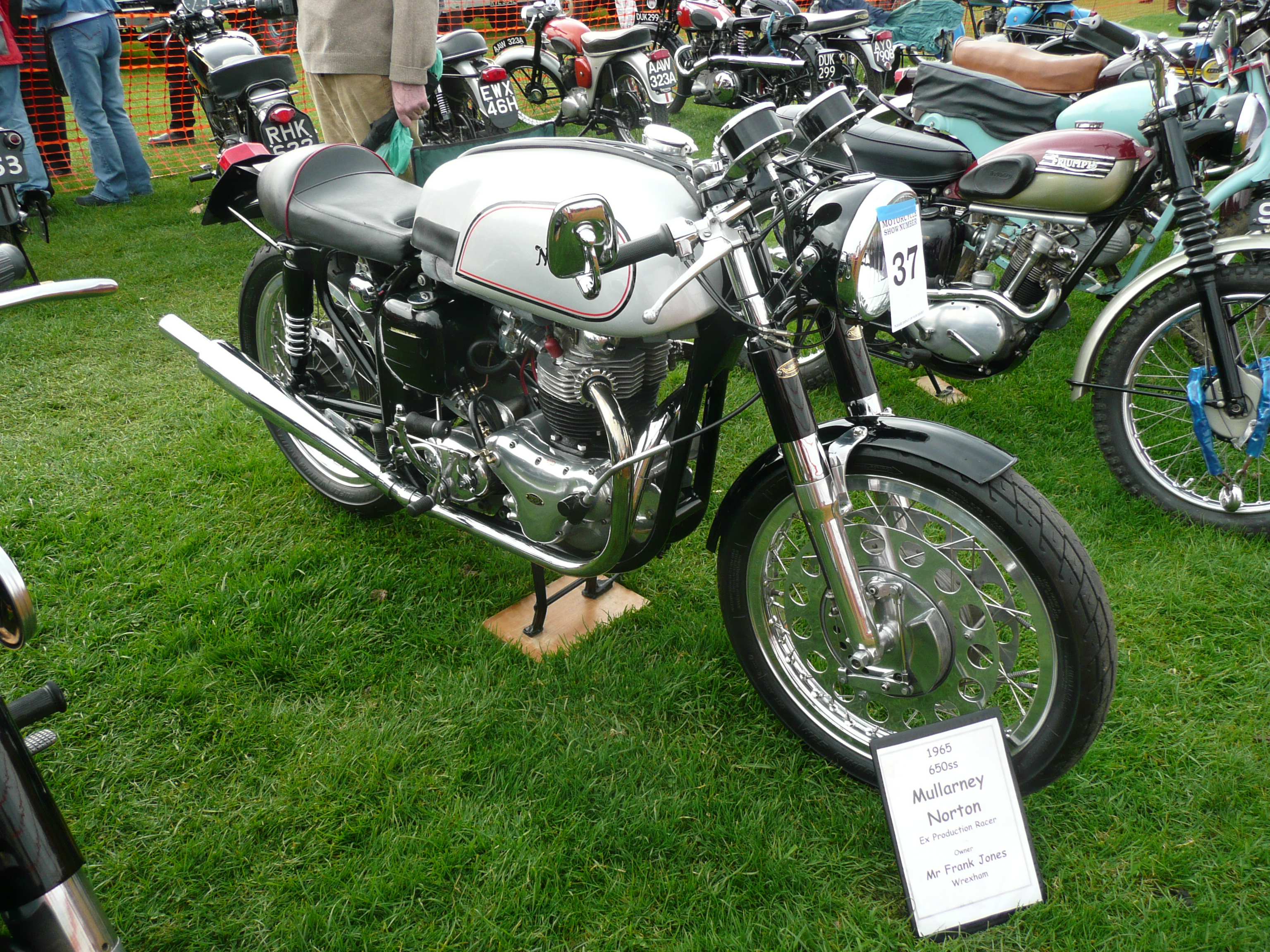 1965 Norton 650ss